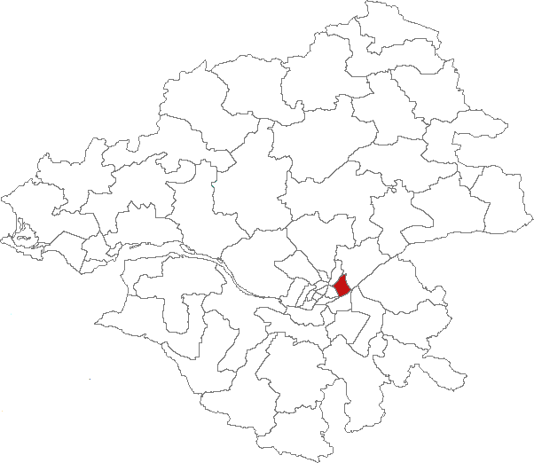 Map of canton of France : Canton de Nantes-9, Loire-Atlantique, France